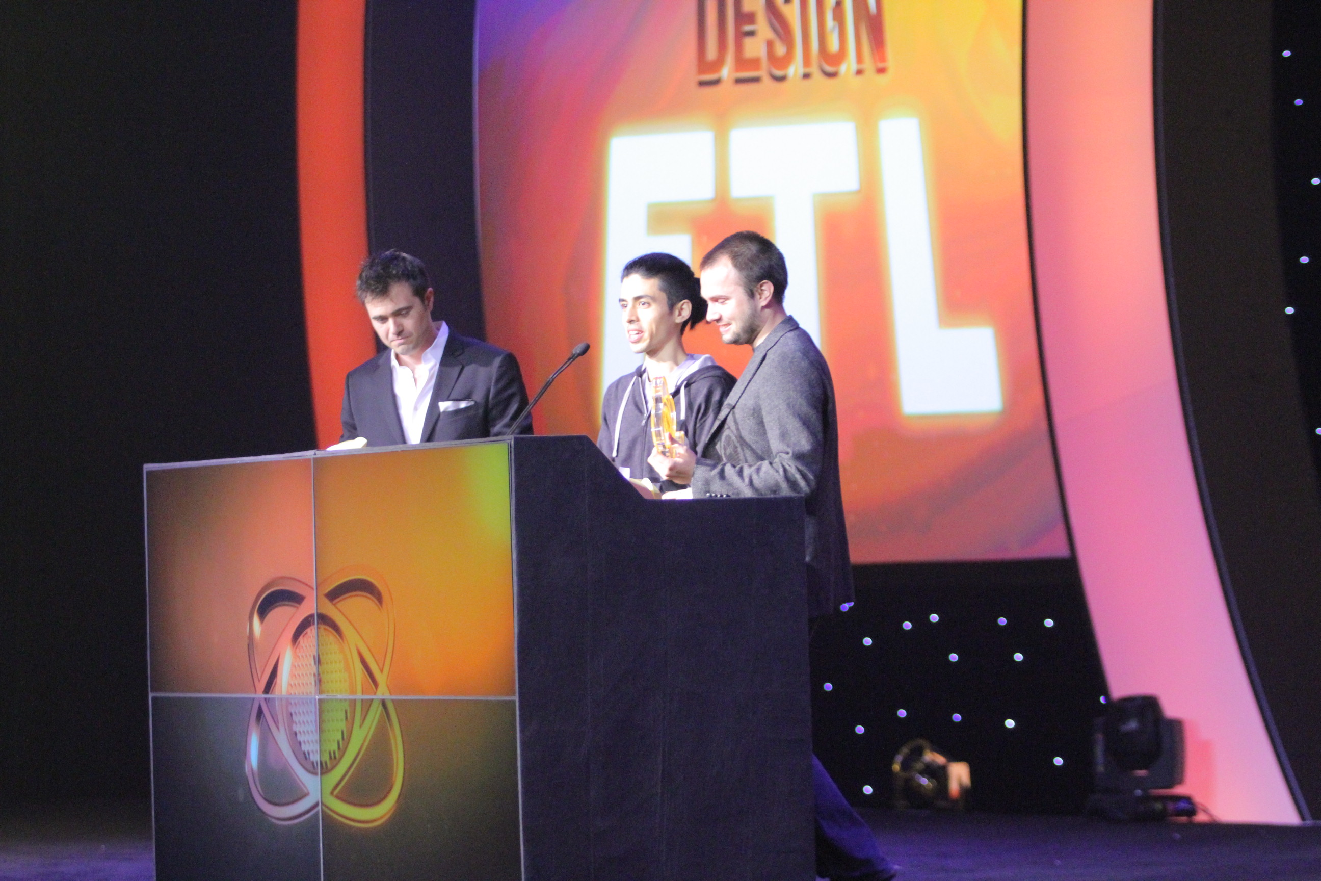 Subset Games (Justin Ma (middle) and Matthew Davis (right)) recieving the Independent Games Festival award at the 2013 Game Developers Conferences